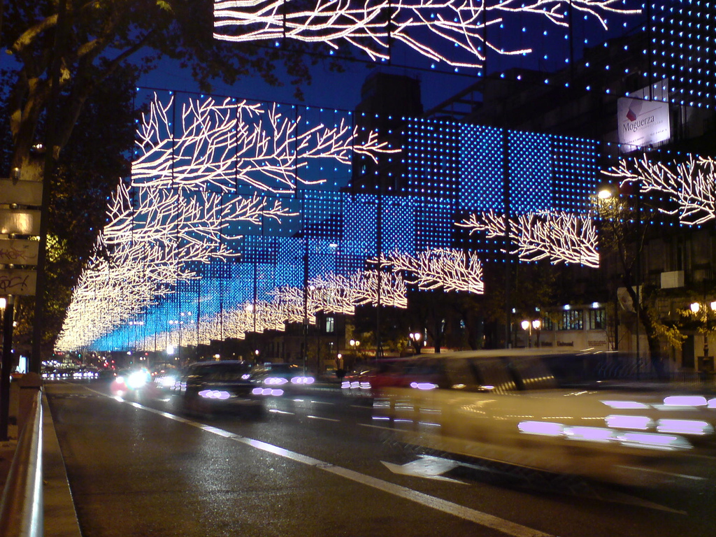 Christmas lights in a street of Madrid (Spain).